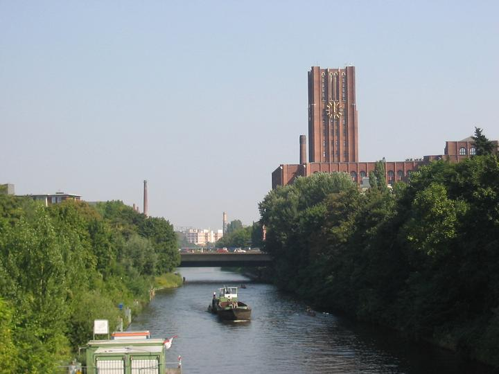 Teltowcanal with bridge of Tempelhofer Damm and Ullsteinhaus opposite the Harbour Tempelhof in Berlin